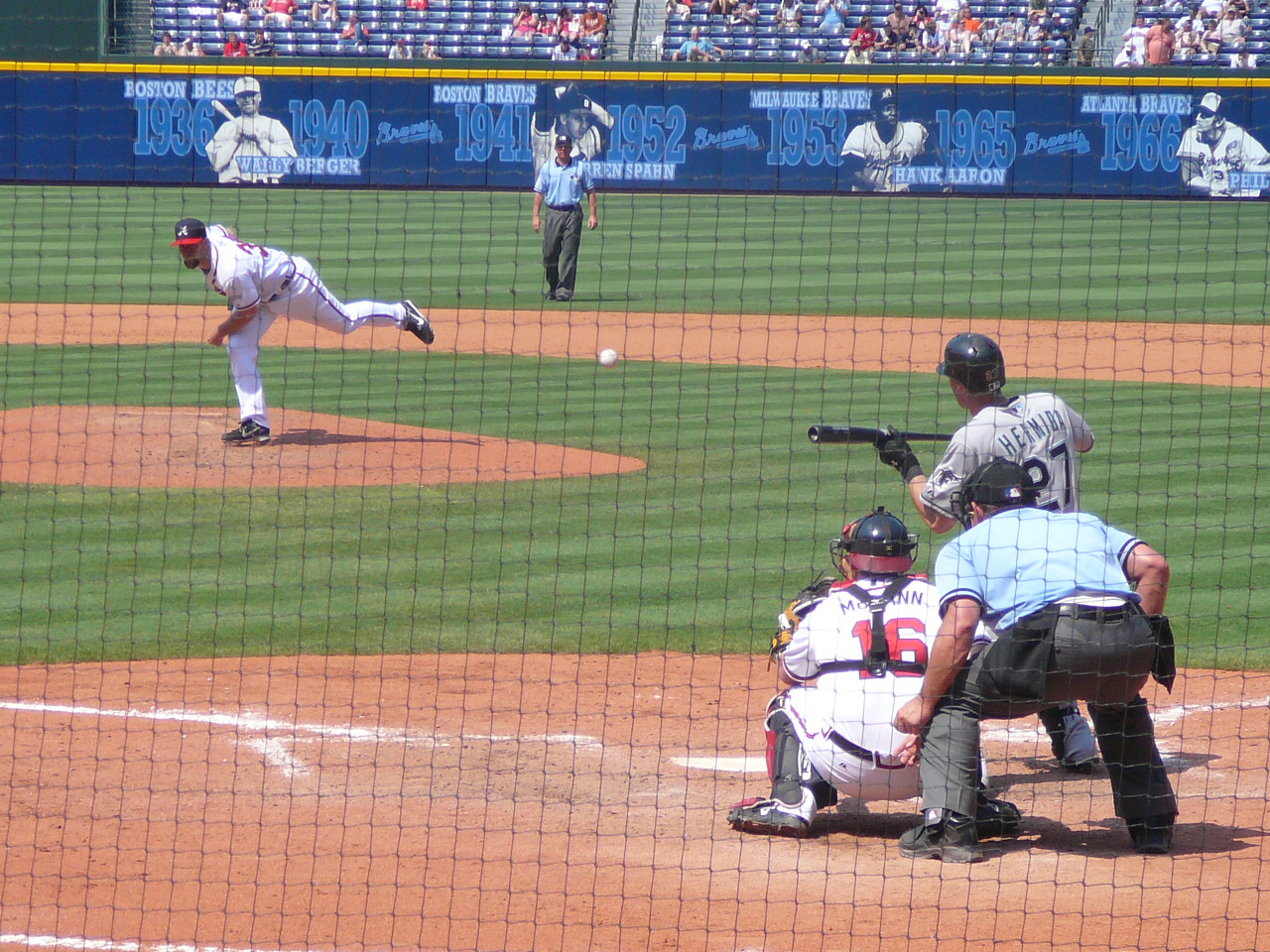 Please attribute photo with author's name if used somewhere other than Wikipedia. 19:46, 3 August 2008 . . Chrisjnelson . . 1,280×960 (1 MB)